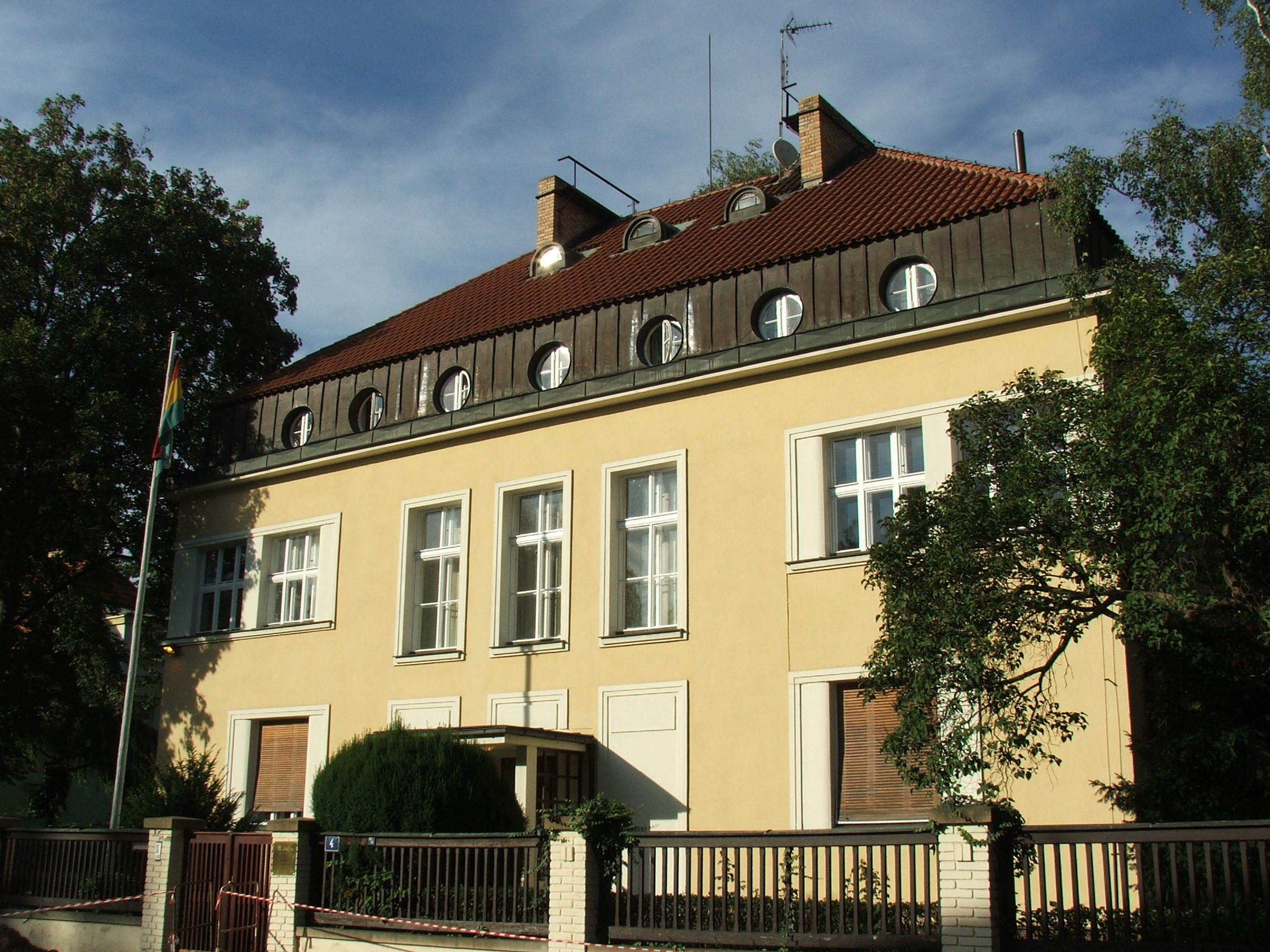 Embassy of Ghana in Prague, Czechia